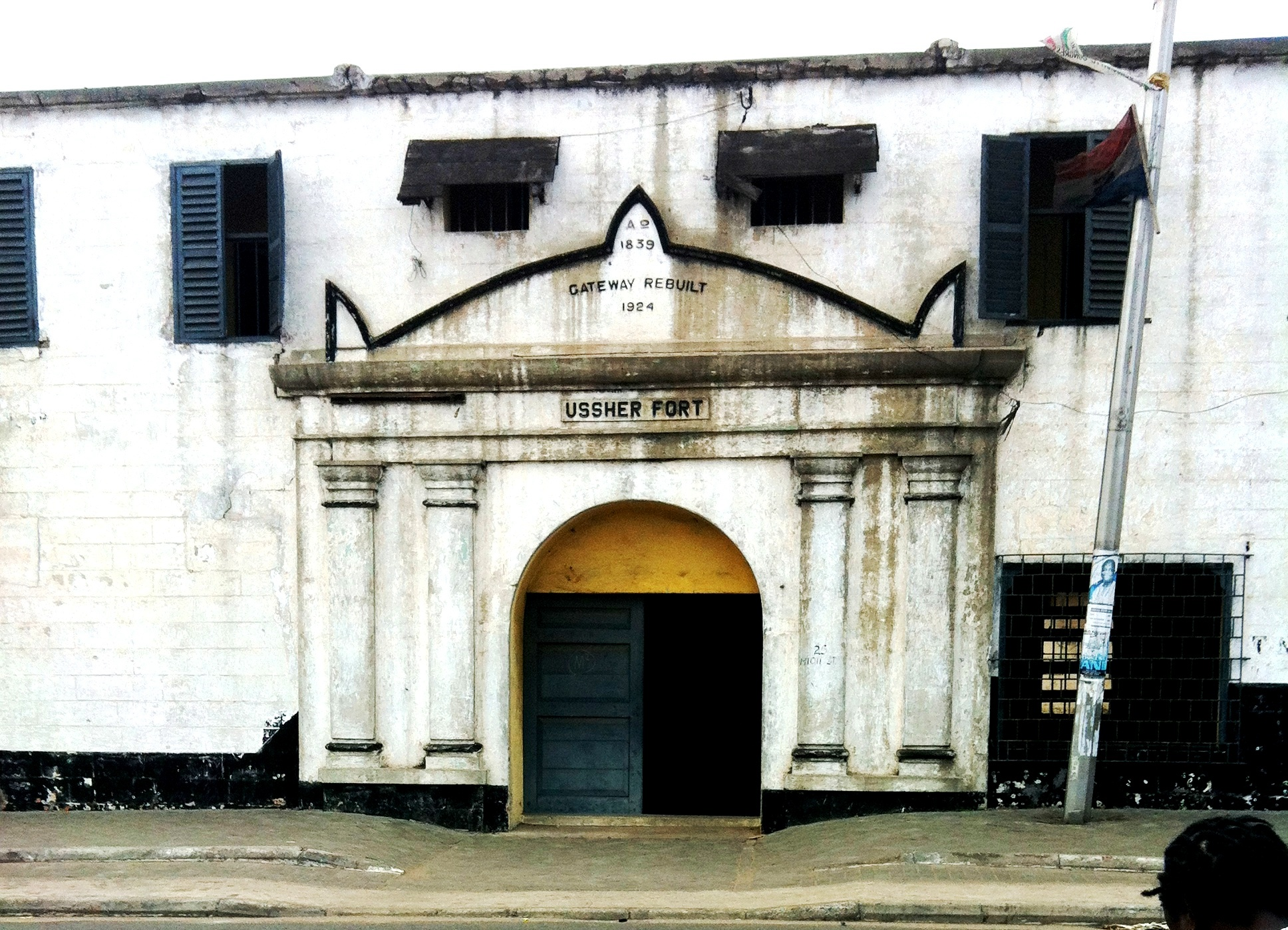 Ussher Fort, the front of the fort.